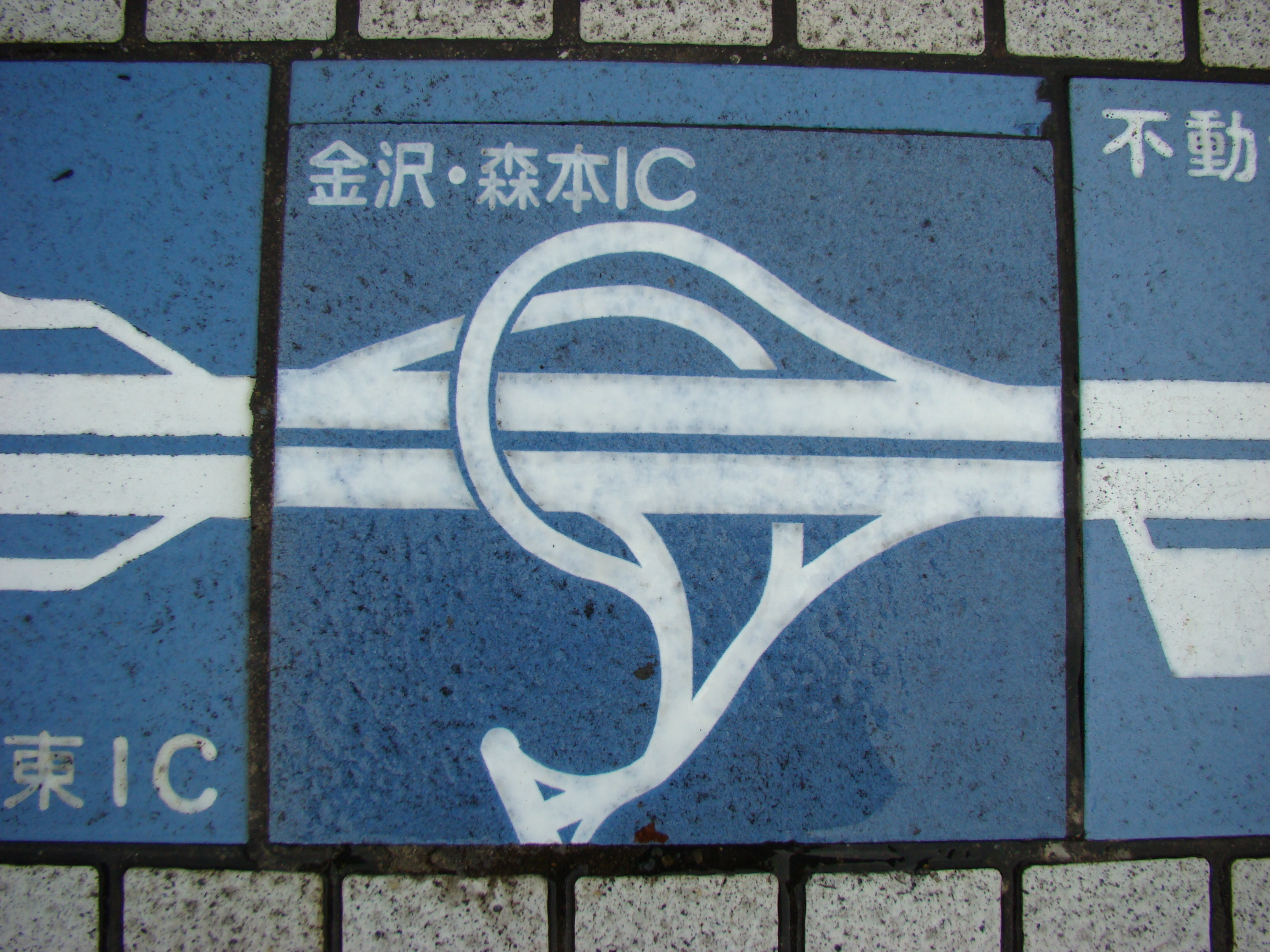 The tile which designed a shape of the Kanazawa-Morimoto Interchange（Hokuriku Expressway）（There is this tile in Hokuriku Expressway Nadachi-Tanihama Service Area.）. Place - Chayagahara,Joetsu City,Niigata Prefecture,Japan Date - August 9, 2009 Format - JPEG, 3264x2448pixel, 24bit colors. Photographer - NALA Wiki (talk)